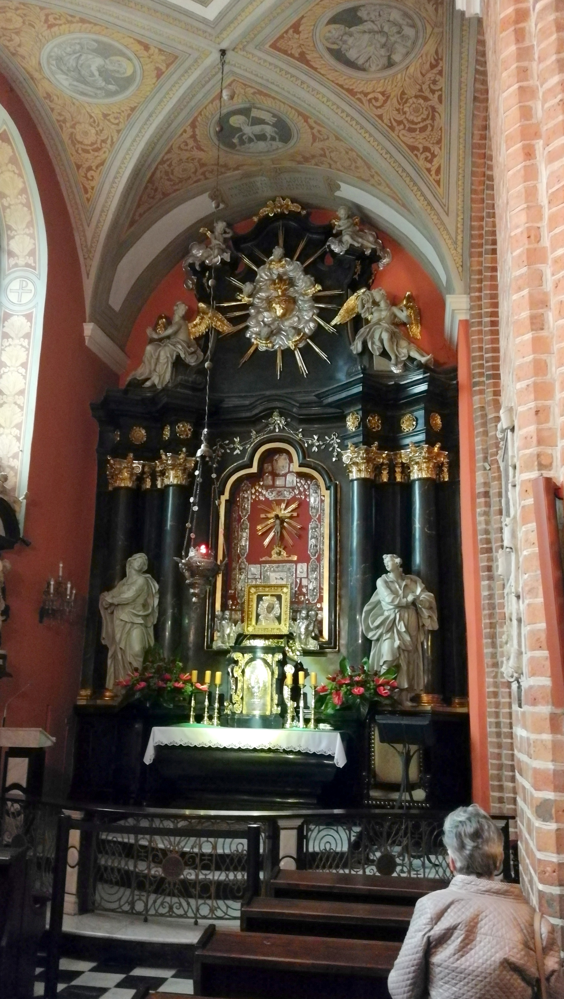 Kaple svatého kříže